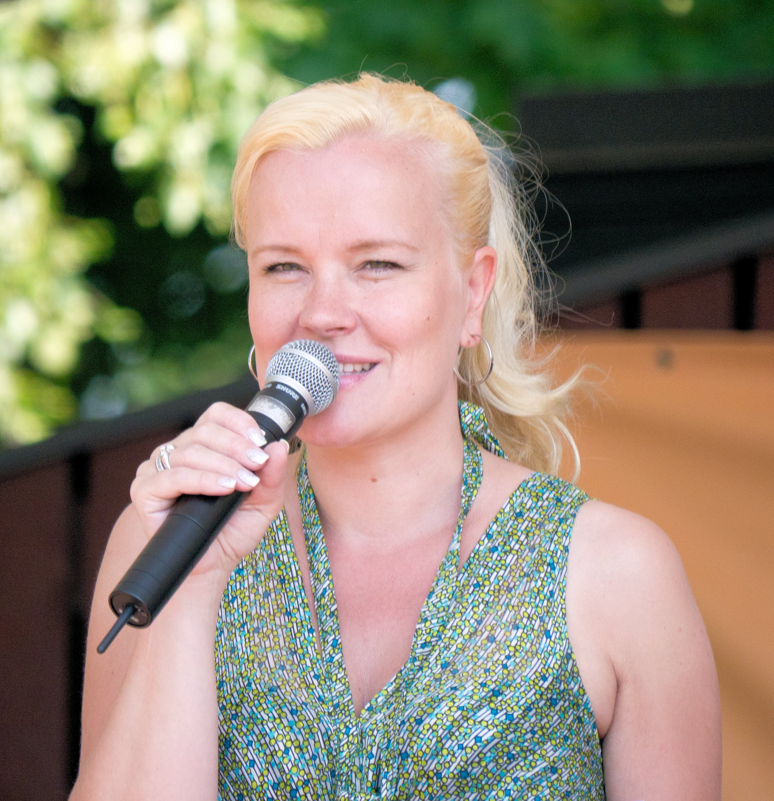 Piia Koriseva